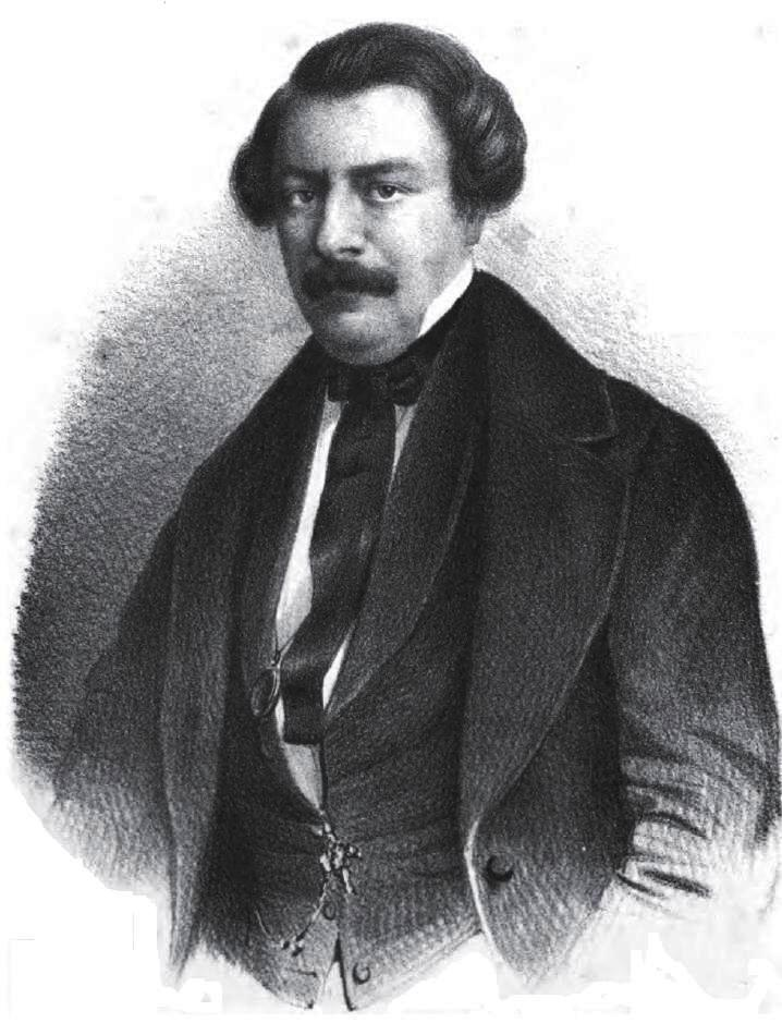 Portrait of the Occitan writer Gustave Benedit